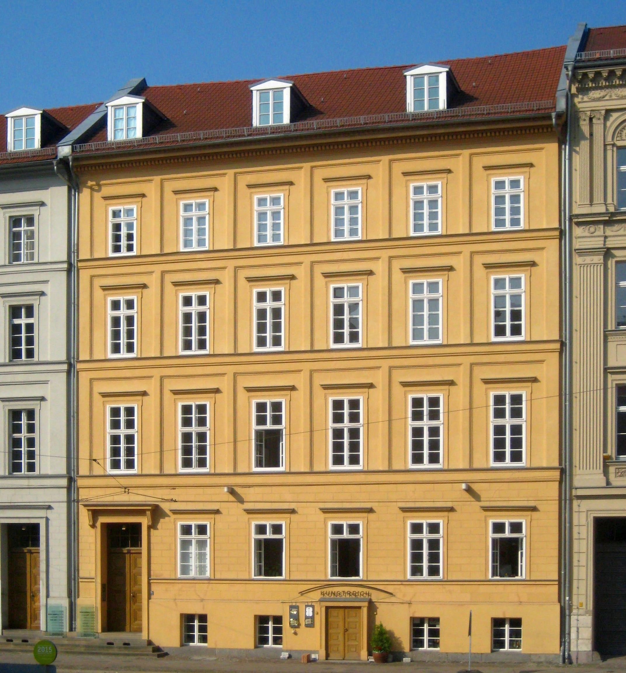 House Am Kupfergraben 6 in Berlin-Mitte, formerly a town house, now an apartment building - opposite the Pergamonmuseum. It was built for merchant Johann Traugott Börner and completed in 1832. Today, the gallery "Kunstreich" is located in the basement. The building has been designated a historic landmark.